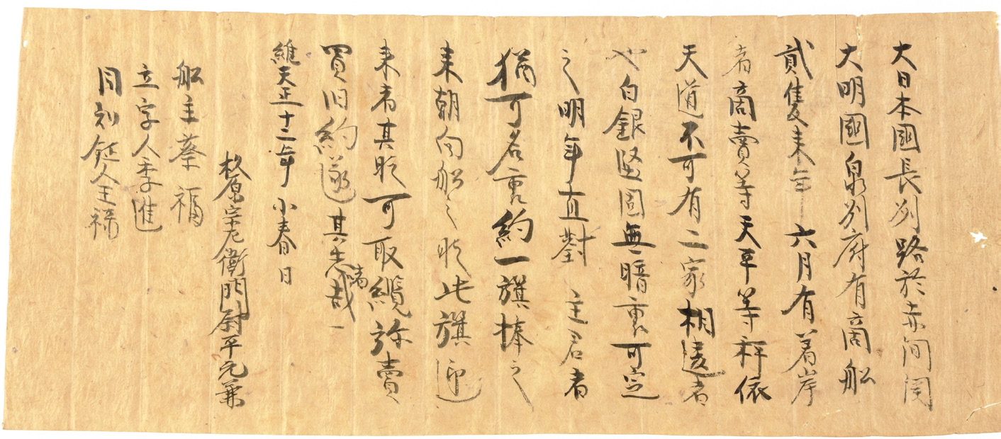 Takasu Family Documents 110, Yamaguchi Prefectural Archives, Yamaguchi, Yamaguchi, Japan; Important Cultural Property